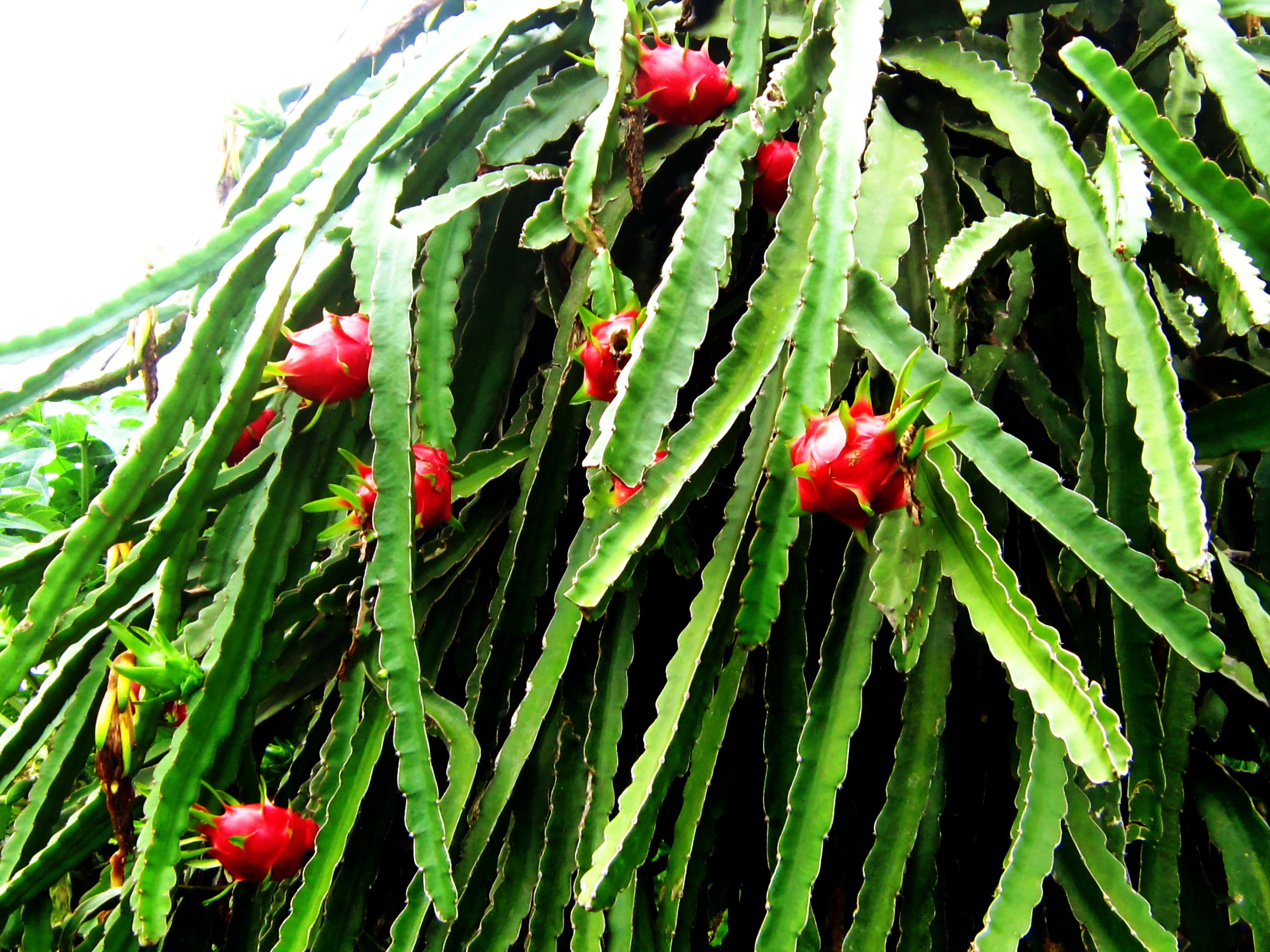 Hylocereus undatus , cultivated in Ninh Thuan Province, Vietnam